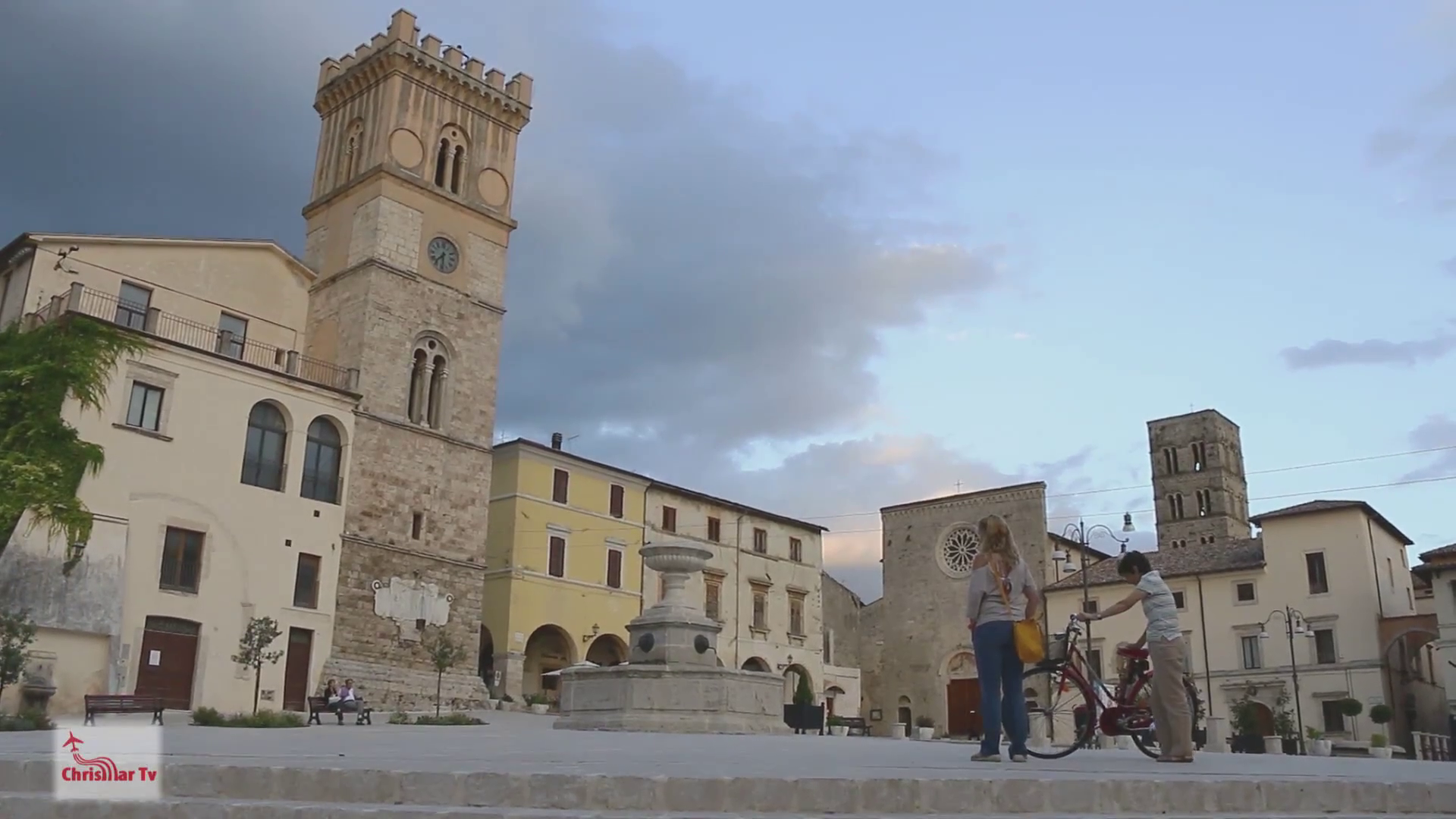 Piazza del Popolo square - Cittaducale, province of Rieti (central Italy)